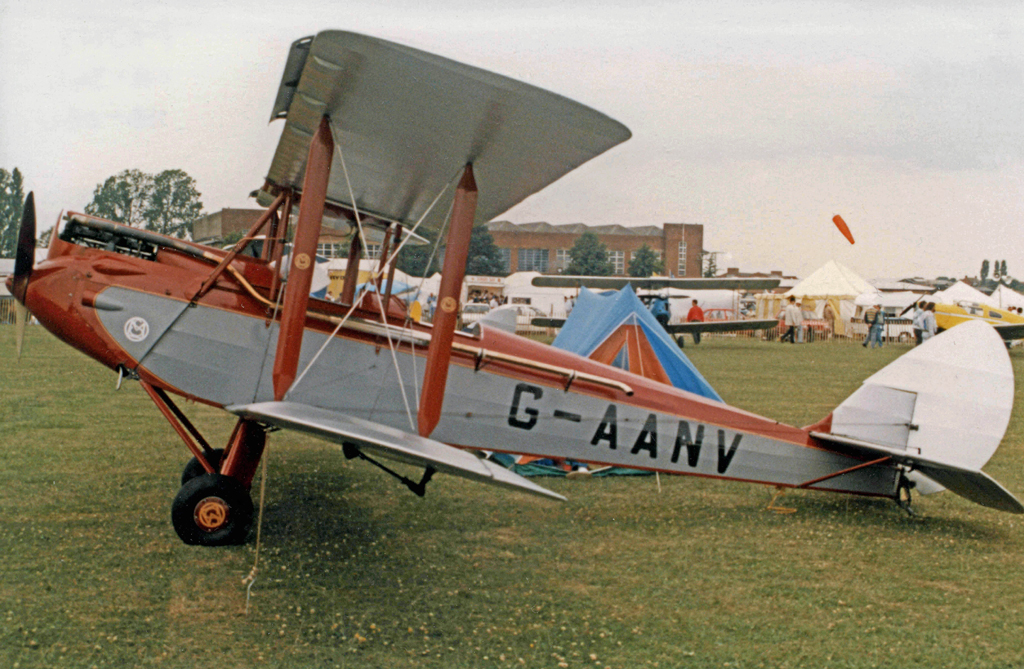 DH.60 Moth G-AANV built in France in 1931 under licence by Morane Saulnier. Taken at Cranfield Aerodrome UK in 1989.